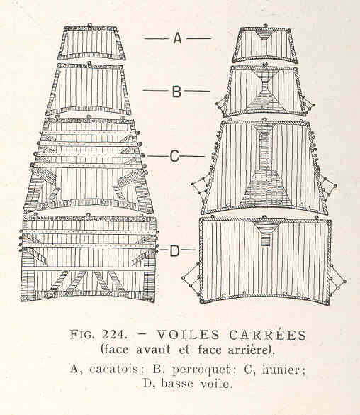 a, cacatrois; b, perroquet; c, hunier; d, basse voile Subject: Sails Tag: Vessels